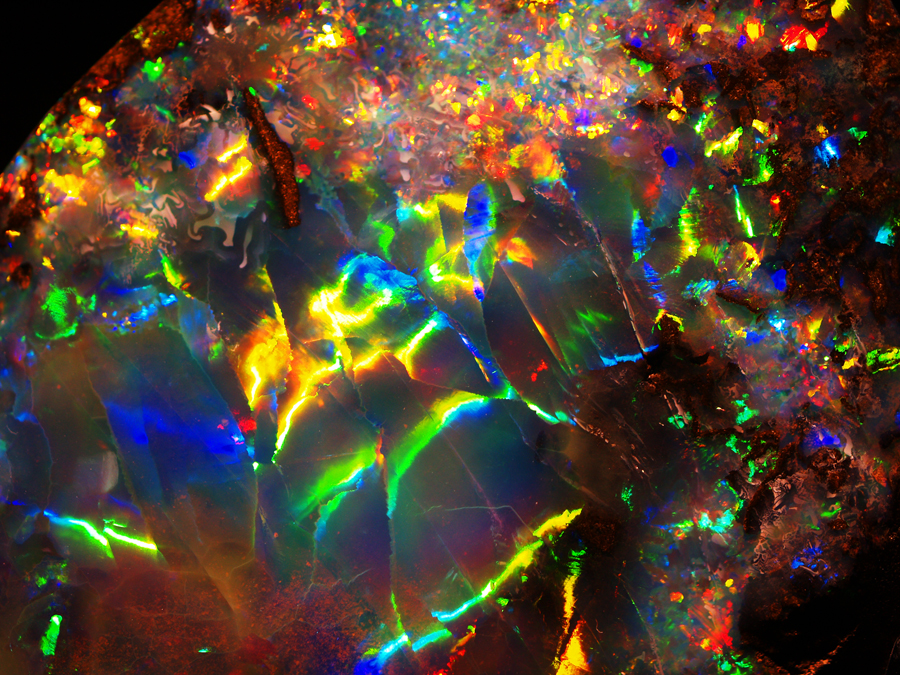 Opal Opalville Mine Queensland, Australia Discovered in 1989, this is one of the largest (2765 carats) and finest quality boulder opals ever mined. This opal is unique not only for its size but also for its quality---every color of the spectrum is visible which is extremely rare, even in the finest of opals. Wikipedia Loves Art at the Houston Museum of Natural Science This photo of item # [1] at the Houston Museum of Natural Science was contributed under the team name "Assignment_Houston_One" as part of the Wikipedia Loves Art project in February 2009. Houston Museum of Natural Science The original photograph on Flickr was taken by sulla55—please add a comment to the original Flickr page whenever a use has been made on Wikipedia or another project. Project galleries on Flickr: this institution, this team